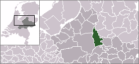 Locator map of Dutch municipalities in Gelderland (LocatieVoorst.png)